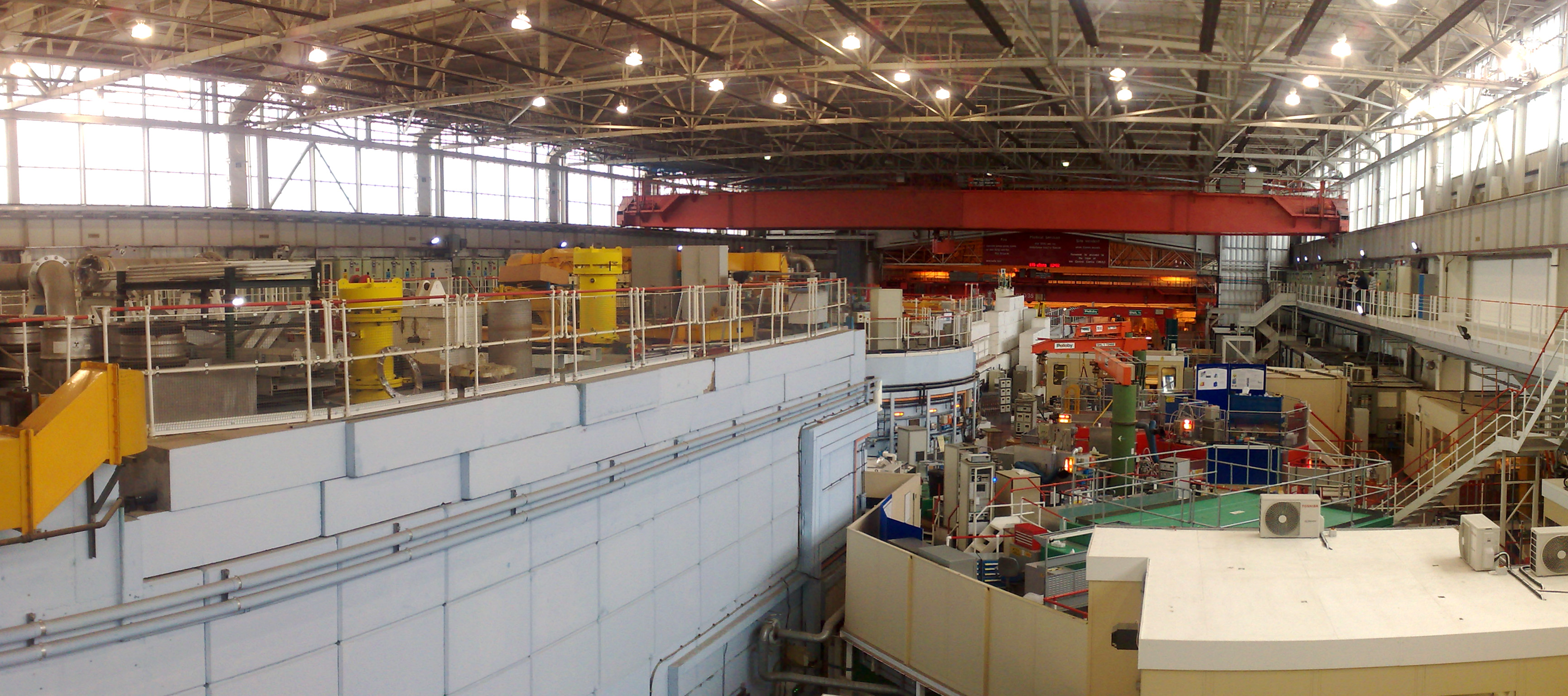 The experimental hall at the ISIS neutron source at the Rutherford Appleton Laboratory in Oxfordshire, UK.